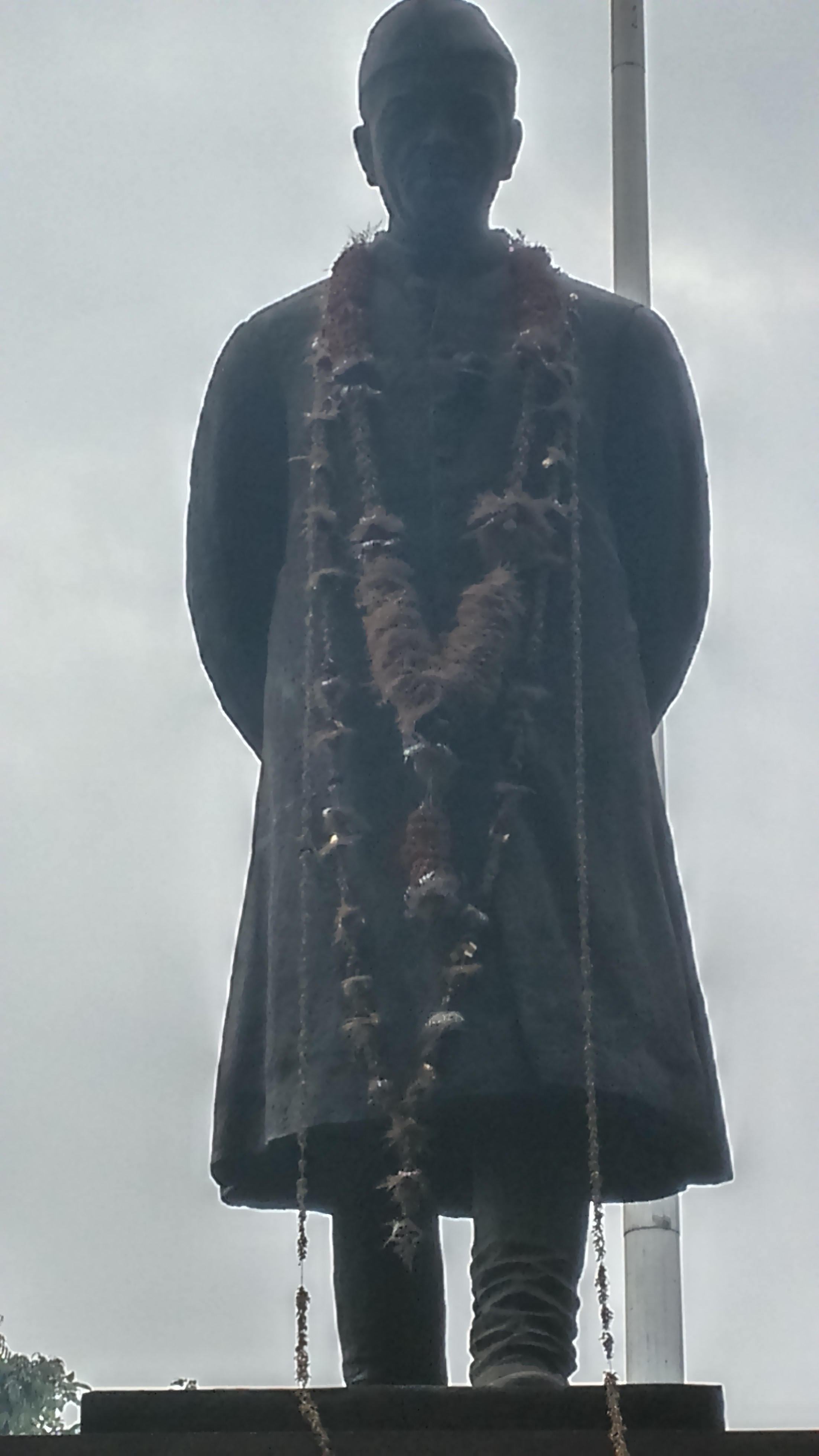 Statue of Jawaharlal Nehru at Park Street, Kolkata.